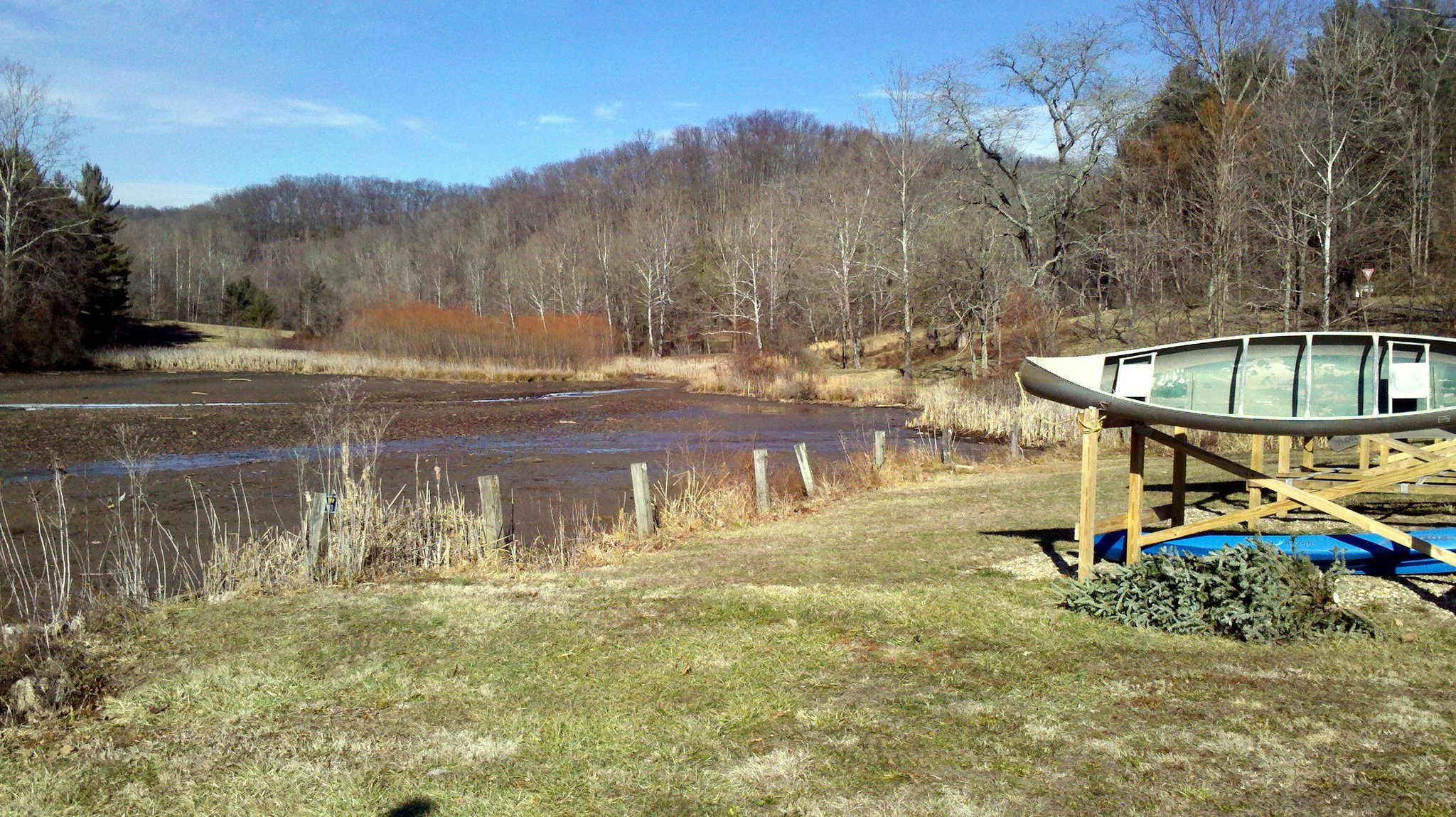 Photo of part of the waterfront area on Dow Lake at Strouds Run State Park